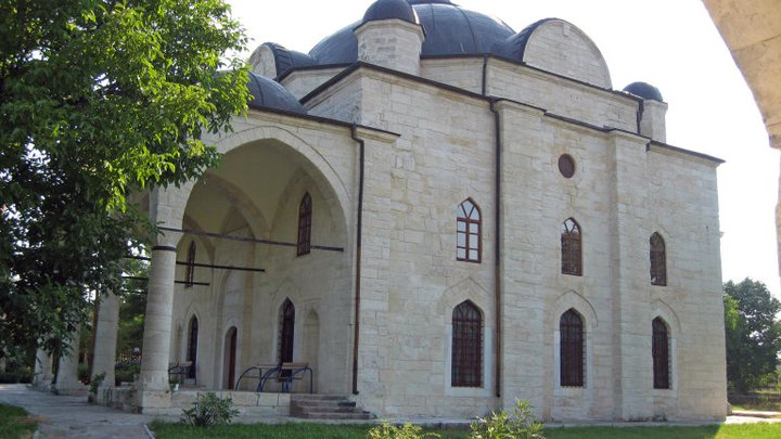 Church of the Assumption, Uzundzhovo, Bulgaria